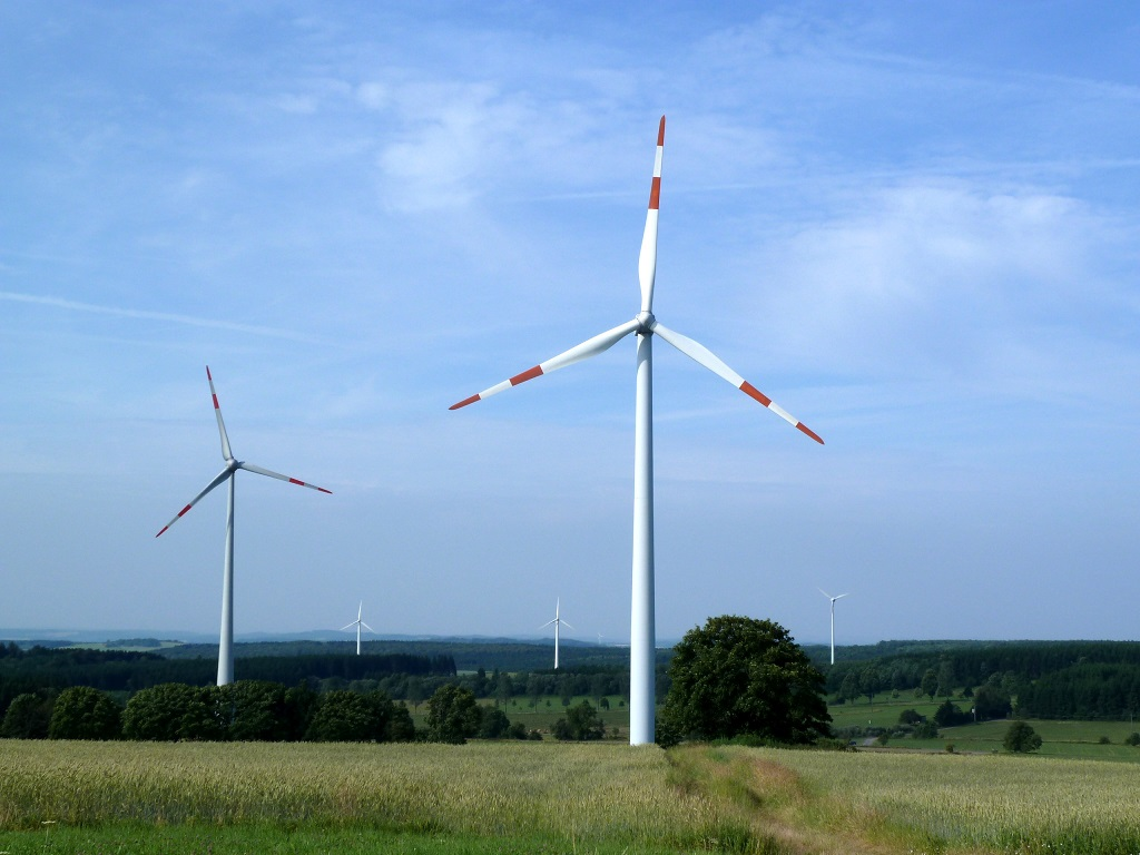 Enercon E-82 and GE Wind Energy 1.5sl wind turbines in the Windenergiepark Vogelsberg (wind farm) near Grebenhain, Hesse, Germany. In the background three elder wind turbines in the Volkartshain wind farm.